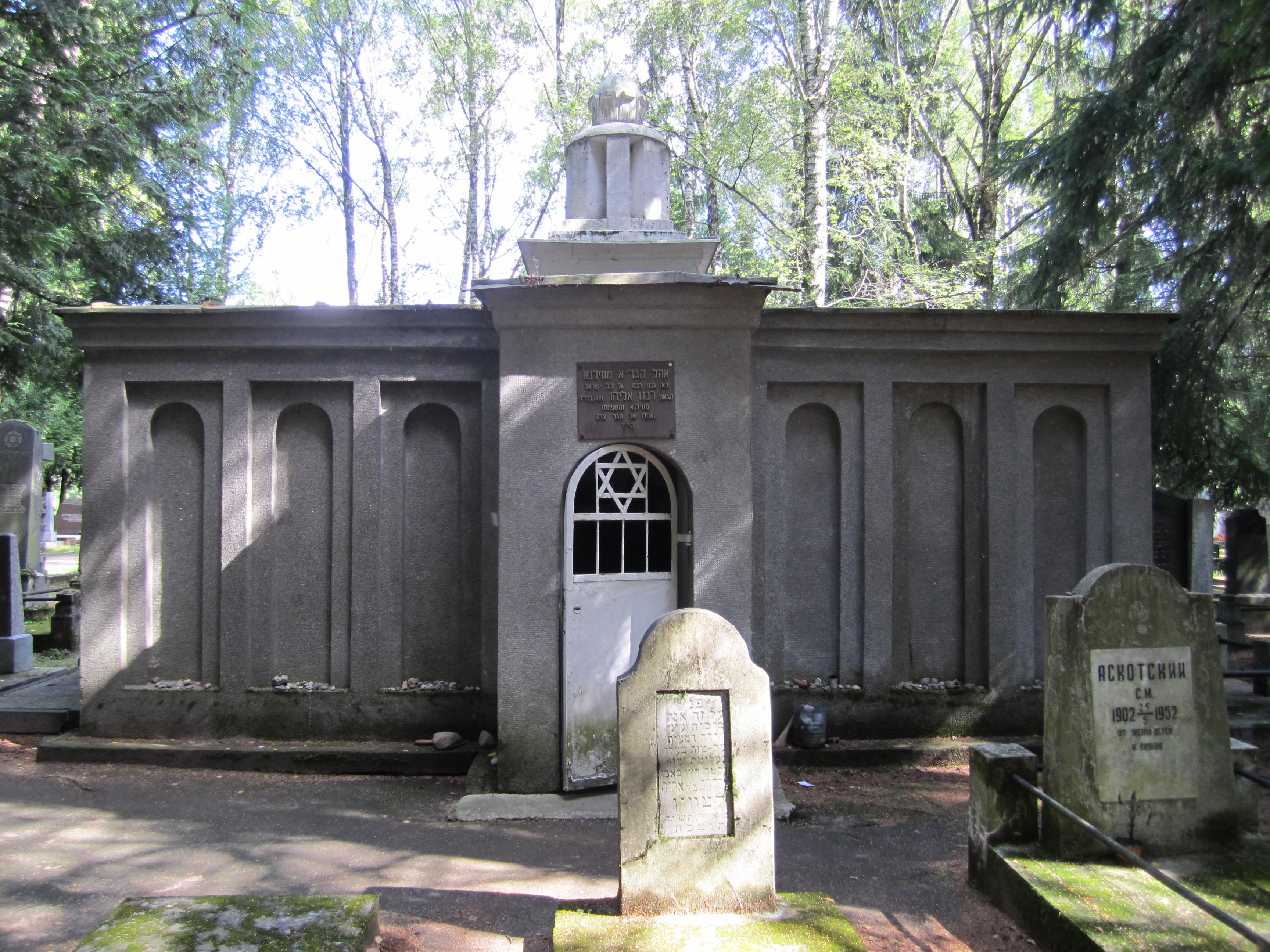 Graves of the Vilna Gaon and Abraham ben Abraham (Graf Valentine Potocki) in Vilnius